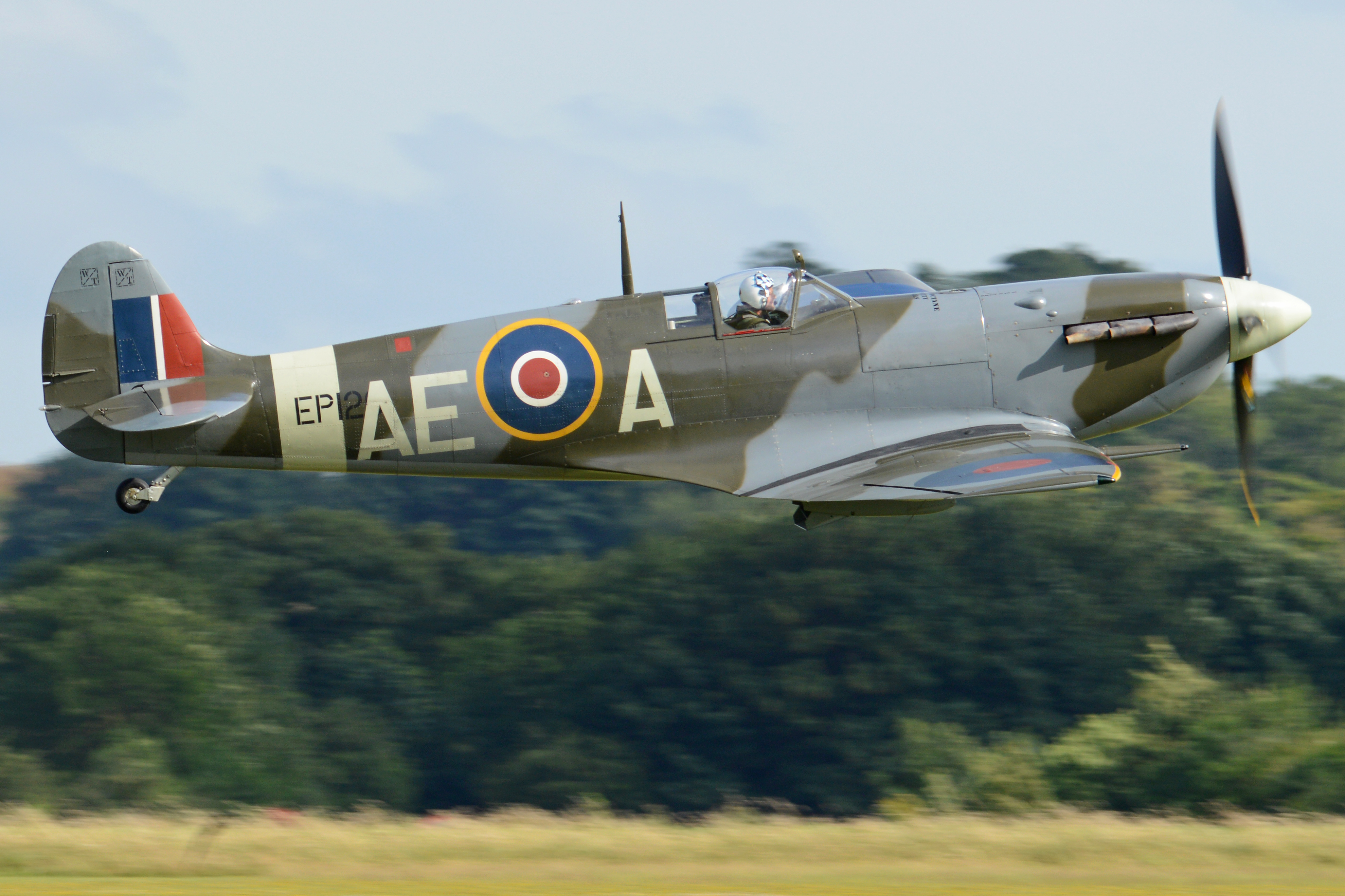 c/n CBAF.2403. Operated by The Fighter Collection and based at Duxford. Seen taxiing to act as the 'Joker' during the 2016 Flying Legends Airshow. Duxford Airfield, Cambridgeshire, UK. 10th July 2016.